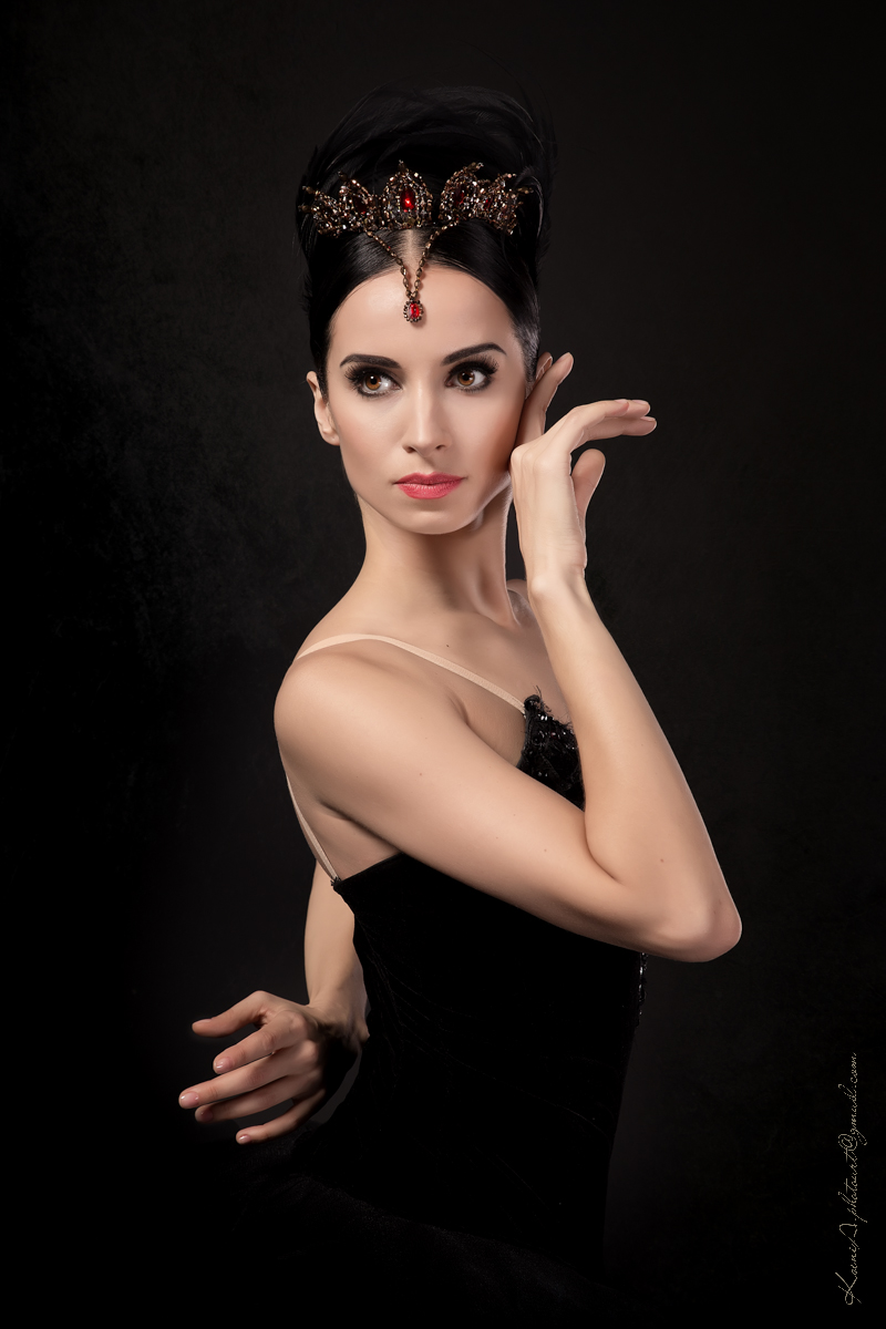 individual photosession